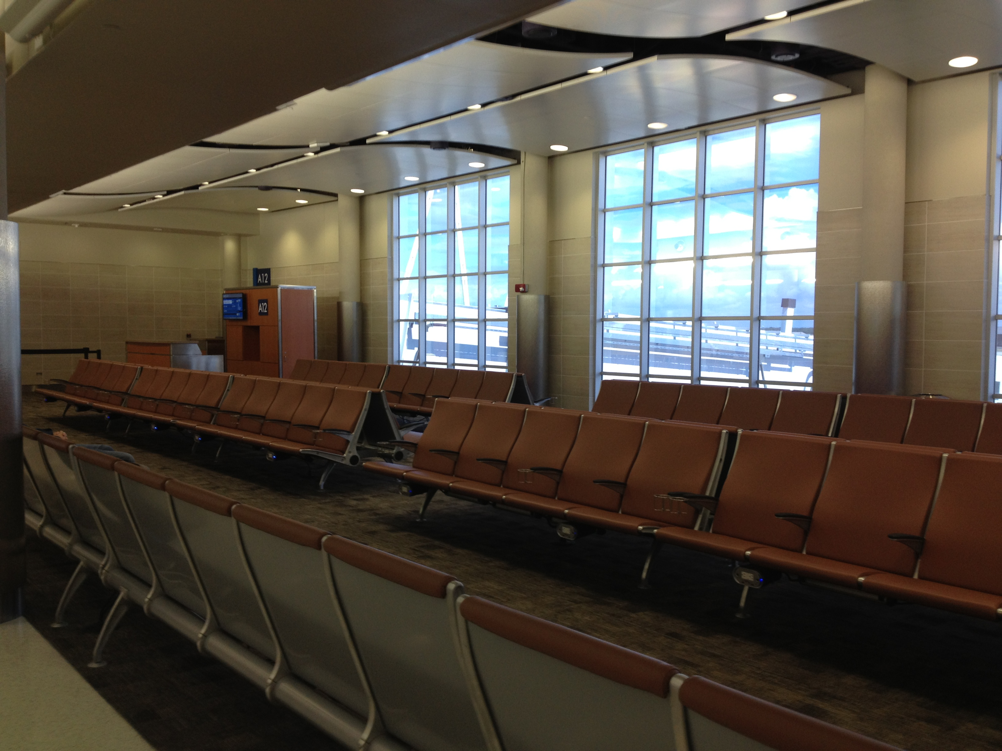 San Antonio International Airport Terminal A Gate area